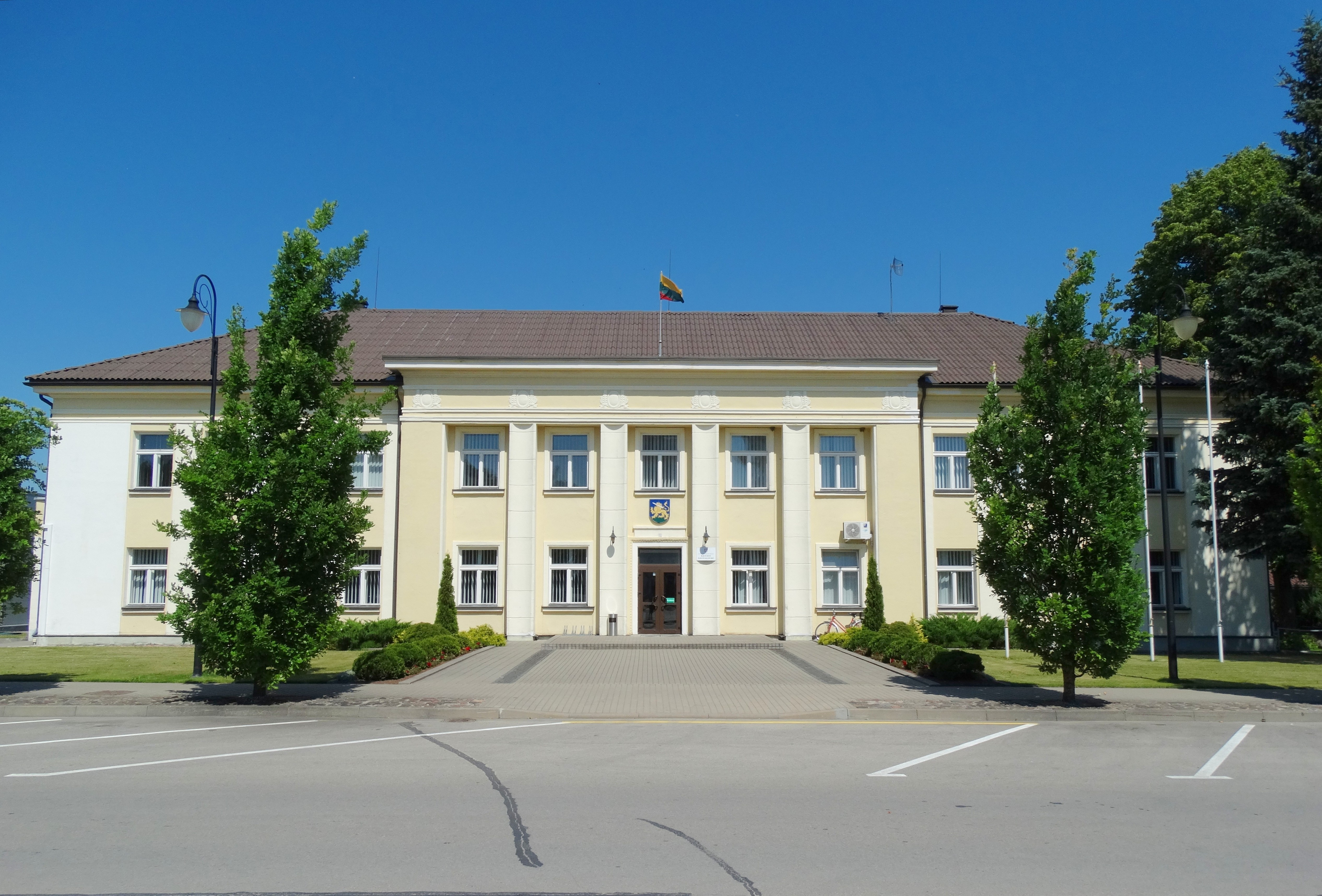 Municipality, Rietavas, Lithuania